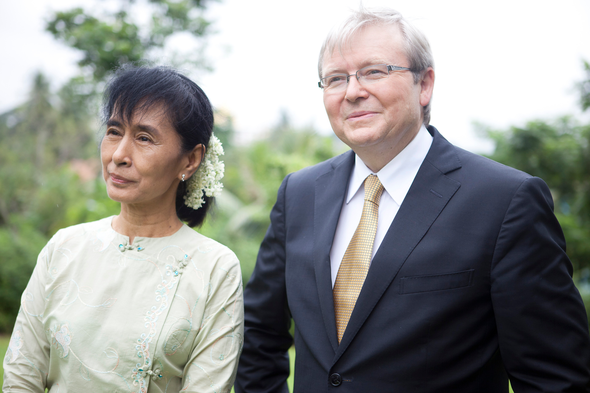 Foreign Minister Kevin Rudd meeting with Aung San Suu Kyi